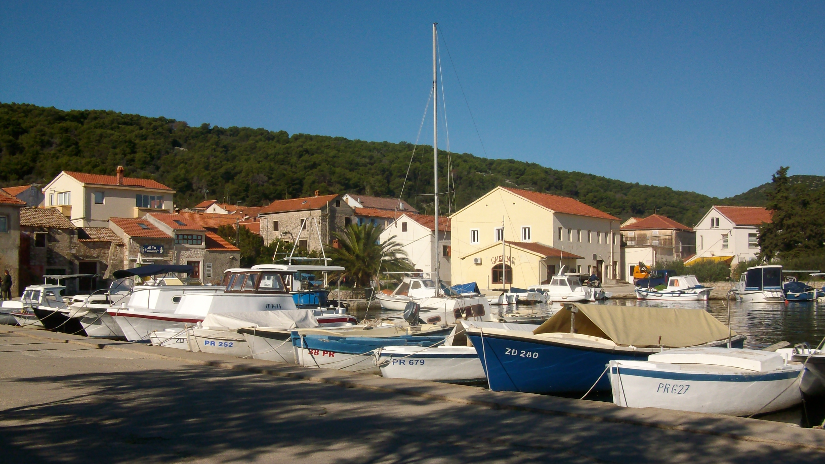 Island Iž, the harbour of Veli Iž, Croatia